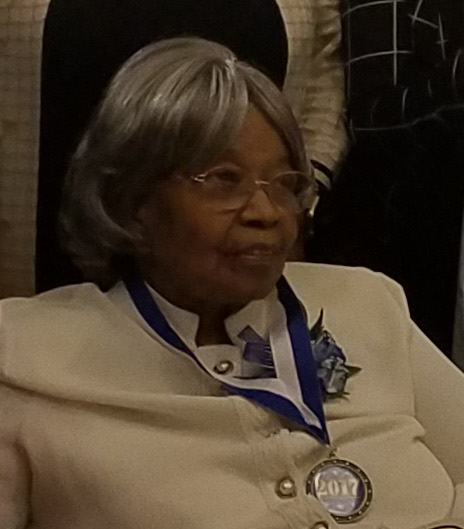 Phyllis Bolds is surrounded by family after her induction into Dunbar High School’s Wall of Fame on Sept. 8, 2017. (U.S. Air Force Photo by Laura McGowan)